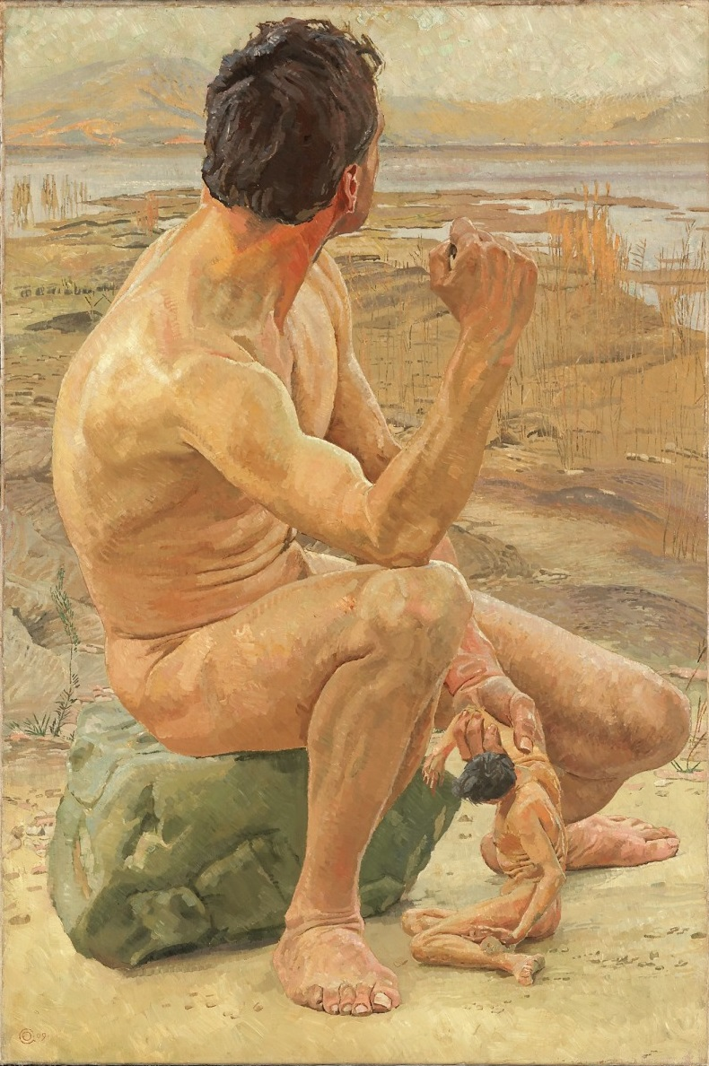 Prometheus sitting on a rock thoughtfully considers the body of the man whom he has just molded from clay, and in the meantime is waiting for the arrival of Psyche that will give him the life.